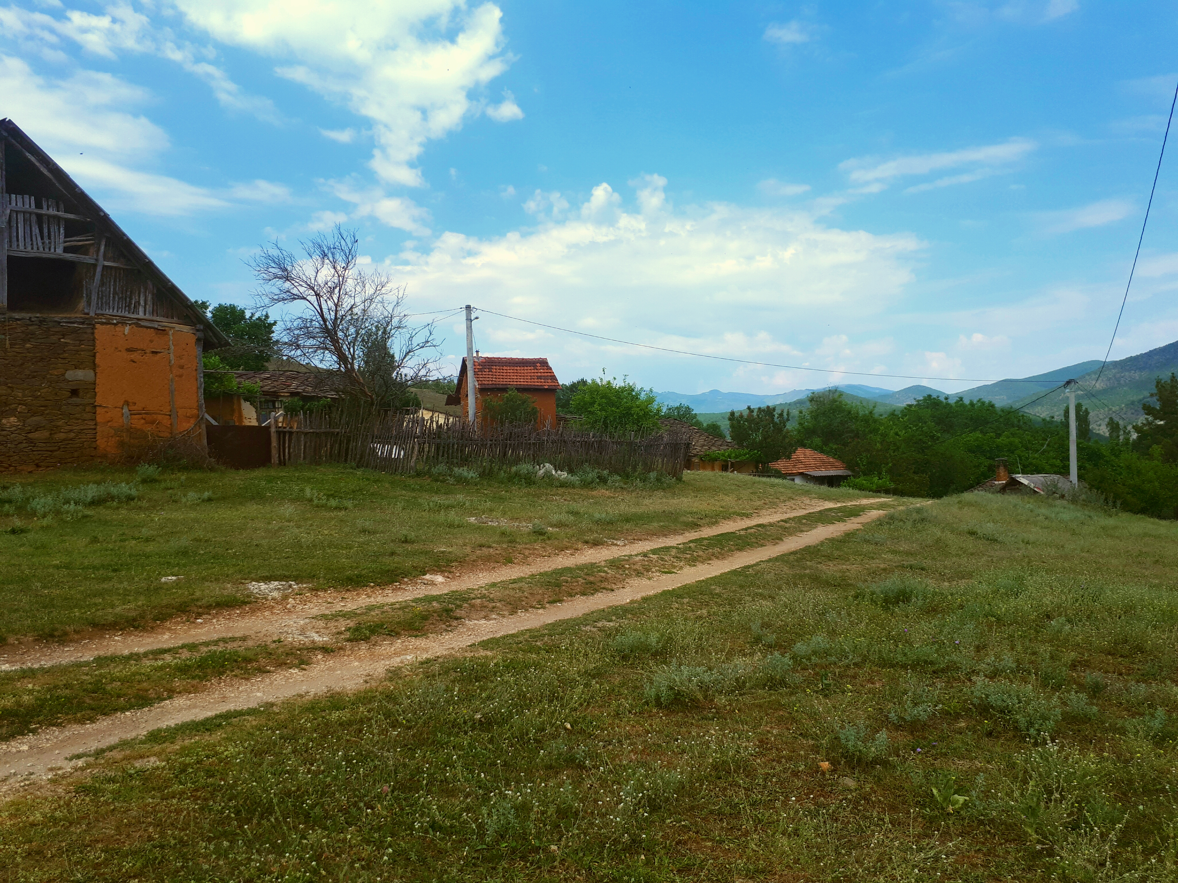 View of the village Kaluǵerec